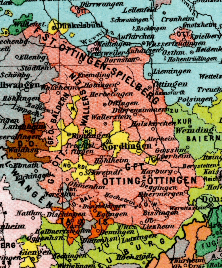 map of the counties of Oettingen-Oettingen, Oettingen-Spielberg, Oettingen-Baldern and Oettingen-Wallerstein